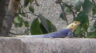 Lizard, possibly Agama boensis. Gambia. Photo: Soman